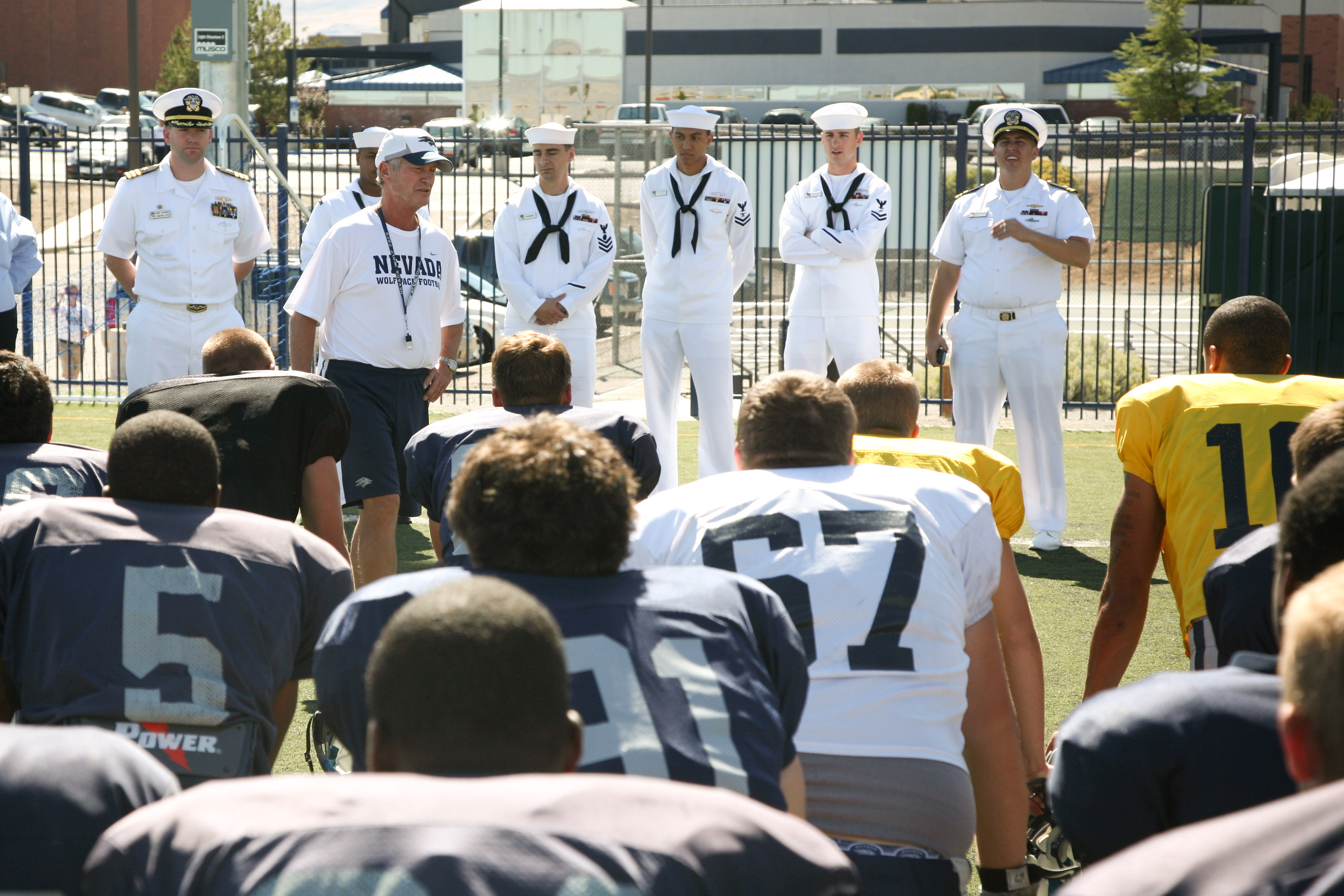 RENO, Nev. (Sept. 16, 2009) Christ Ault, head football coach for the University of Nevada Reno Wolf Pack introduces Cmdr. Marc Behning, left, commanding officer of the Ohio-class fleet ballistic-missile submarine USS Nevada (SSBN 733) to his team. The submariners are part of a namesake visit taking place during Reno Navy Week. Navy Weeks are designed to show Americans the investment they have made in their Navy and increase awareness in cities that do not have a significant Navy presence. (U.S. Navy photo by Senior Chief Mass Communication Specialist Gary Ward/Released)